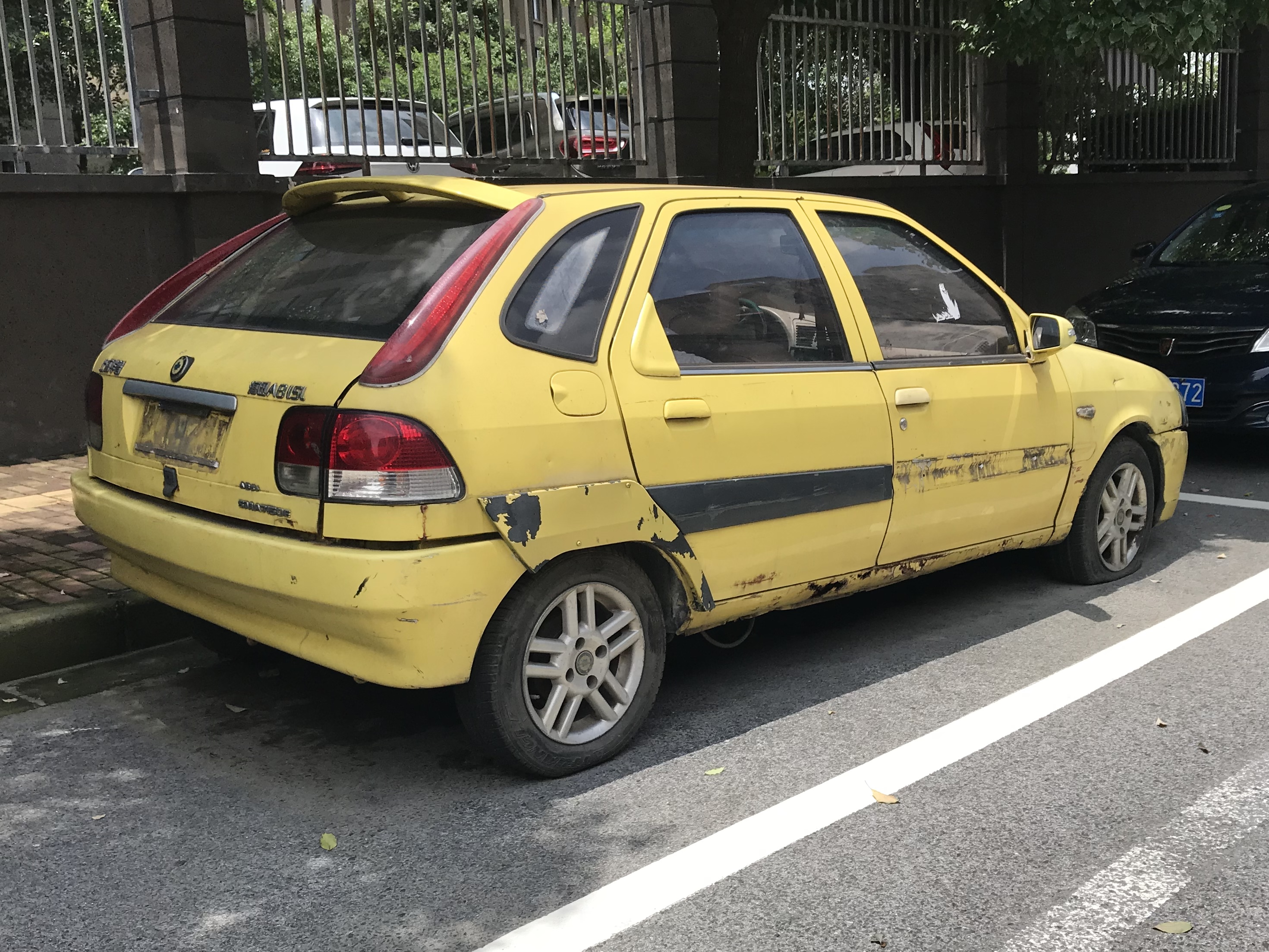 Shanghai Maple Hisoon (海迅) hatchback